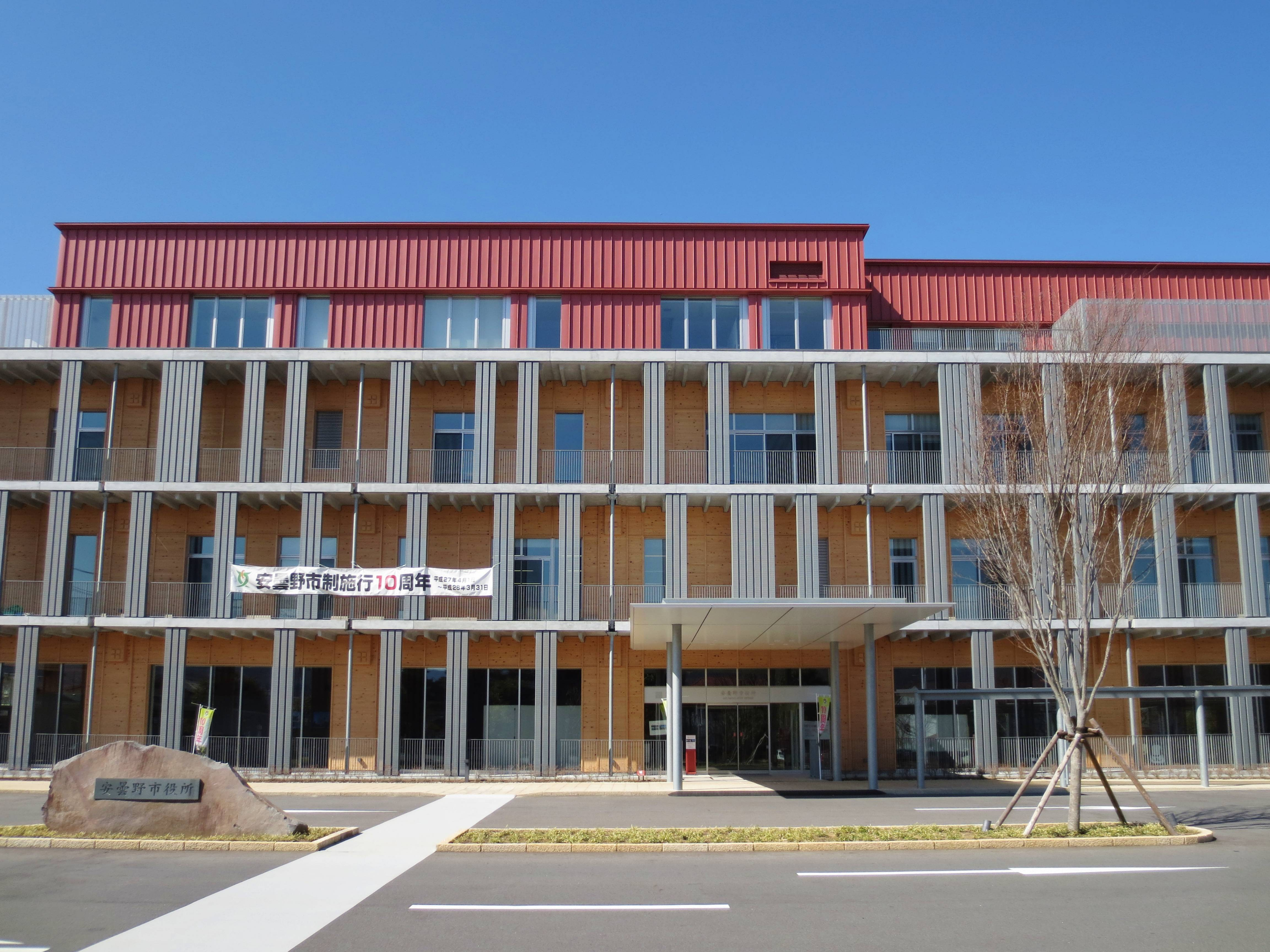 Azumino city office.